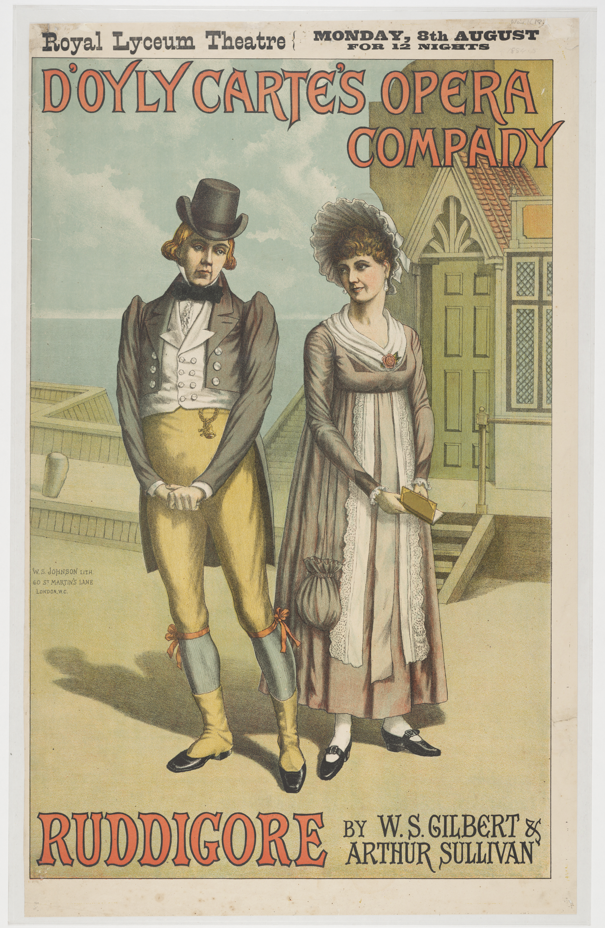 Monday, 8th August for 12 nights. D'Oyly Carte's Opera Company. 'Ruddigore'. By W. S. Gilbert & Arthur Sullivan. Printed by W. S. Johnson, Lithographer, 60 St. Martin's Lane, London, W.C.